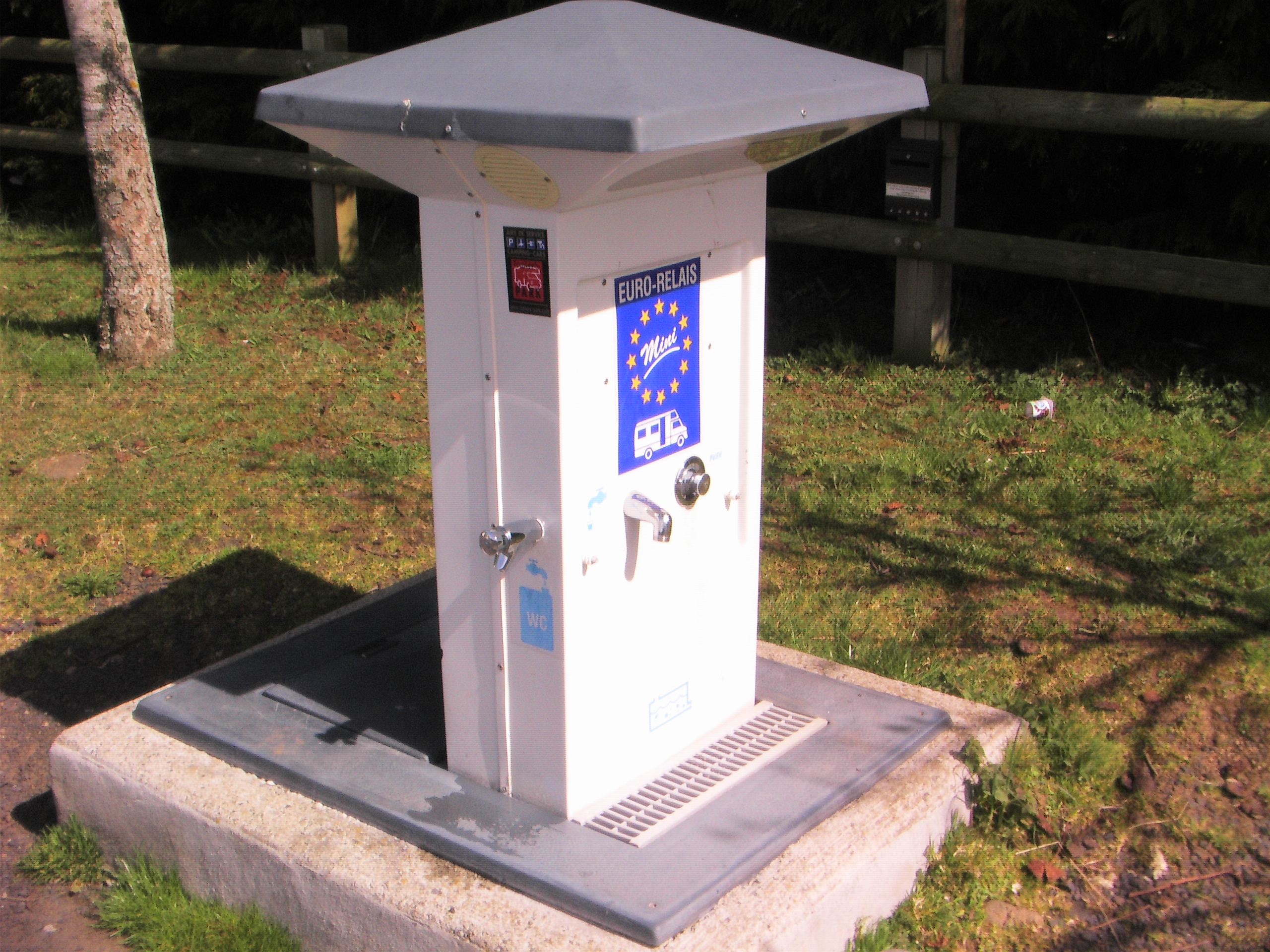 "Eurorelais" Motorhome area. Valuéjols, France.